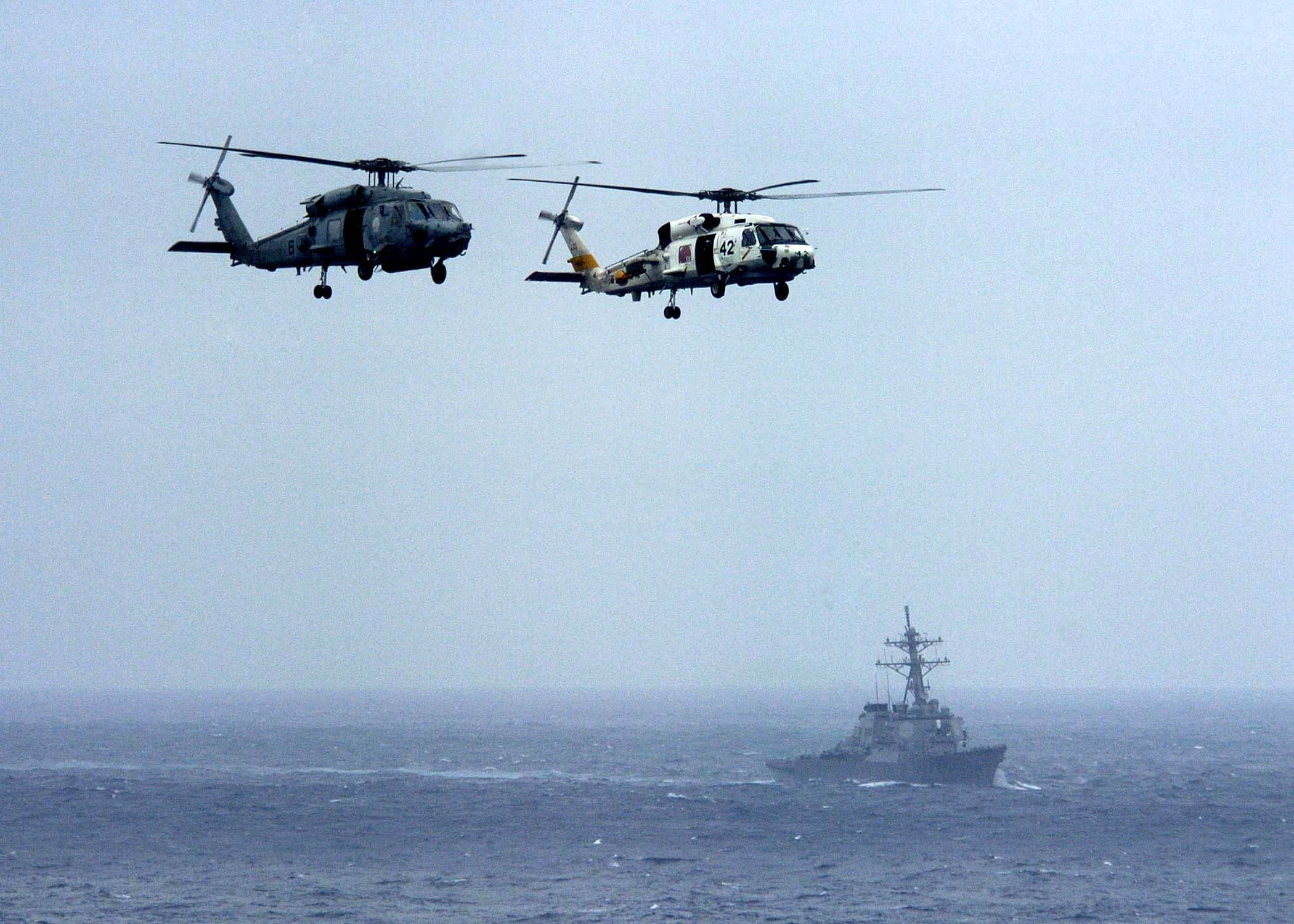 Pacific Ocean (June 9, 2005) - An HH-60H Seahawk assigned to the "Saber Hawks" of Helicopter Anti-Submarine Squadron Light Four Seven (HSL-47) and a Japanese Maritime Self Defense Force SH-60B Seahawk helicopter fly pass the guided missile destroyer USS Benfold (DDG 65) during a passing exercise between the U.S. and Japanese naval forces. The Nimitz-class aircraft carrier USS Abraham Lincoln (CVN 72) is currently conducting readiness training in support of the Navy's Fleet Response Plan. U.S. Navy photo by Photographer's Mate Airman Justin R. Blake (RELEASED)